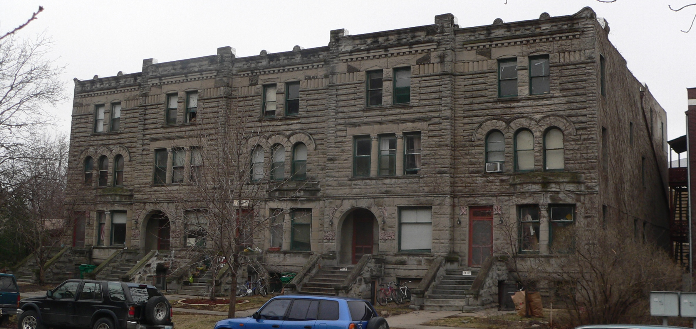 Lyman Terrace, located at 1111-1119 H street in Lincoln, Nebraska; seen from the northwest.